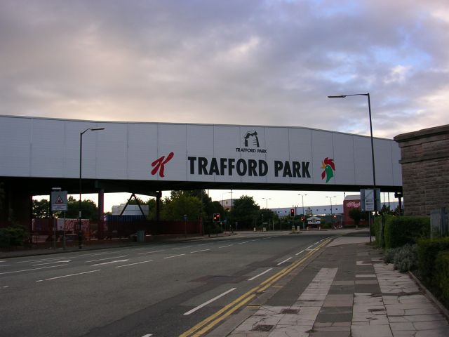 The Best to You Each Morning! This sructure links two parts of the Kellogg's factory in Trafford Park, Manchester. It crosses Park Road near its junction with Barton Dock Road and marks the boundary of Trafford Park with Stretford. SJ790955